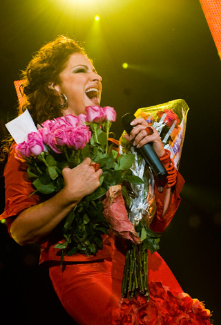 Gloria Estefan receiving flowers for her birthday at her show in the Ahoy venue, Rotterdam.